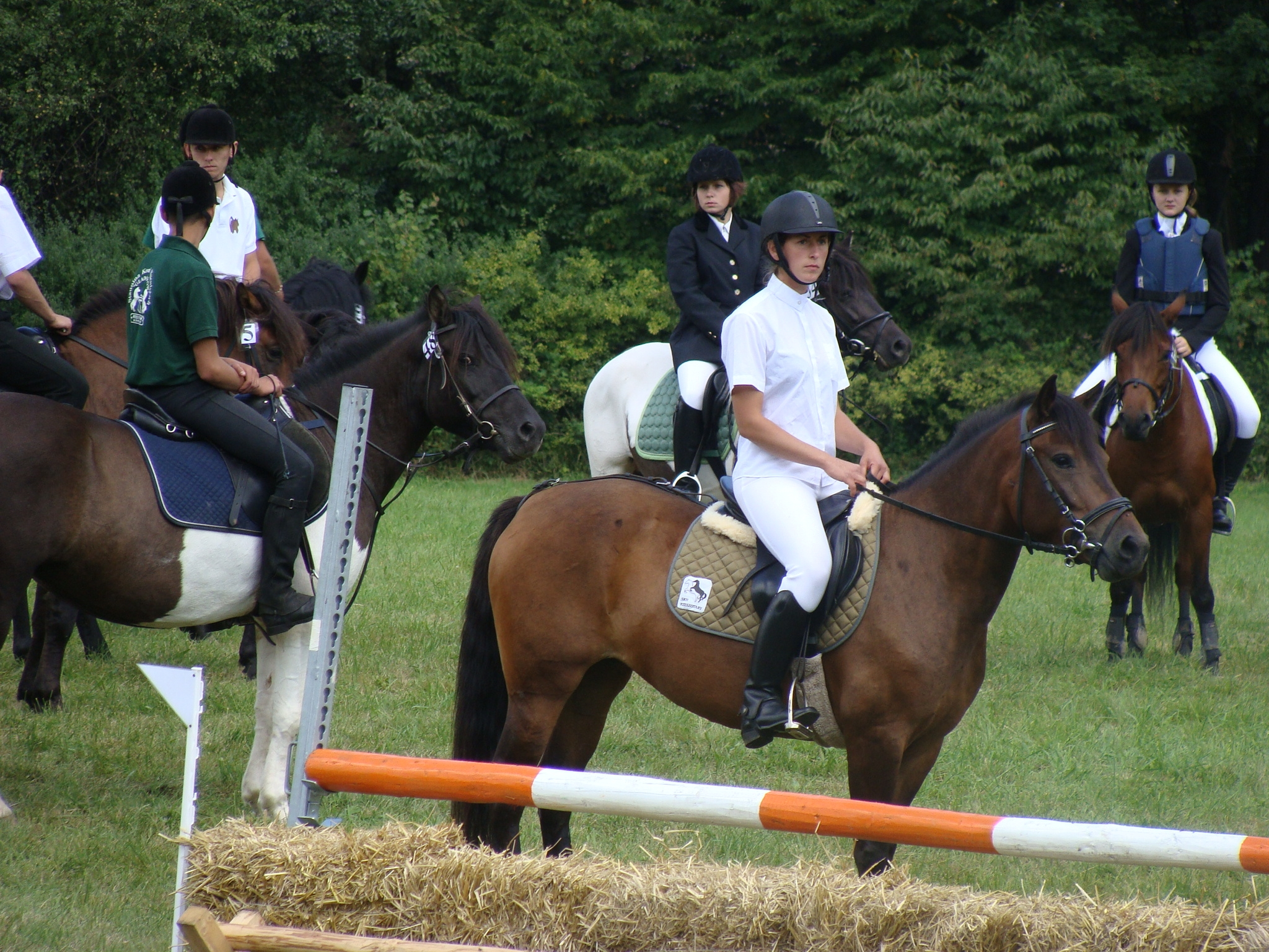 The Regional Pony Rally in Rudawka Rymanowska, (pl.) Regionalny Championat Konia Huculskiego will attract riders and their ponies from several states to compete in Tetrathlon, Show Jumping, Dressage, and Eventing. Included with park admission.